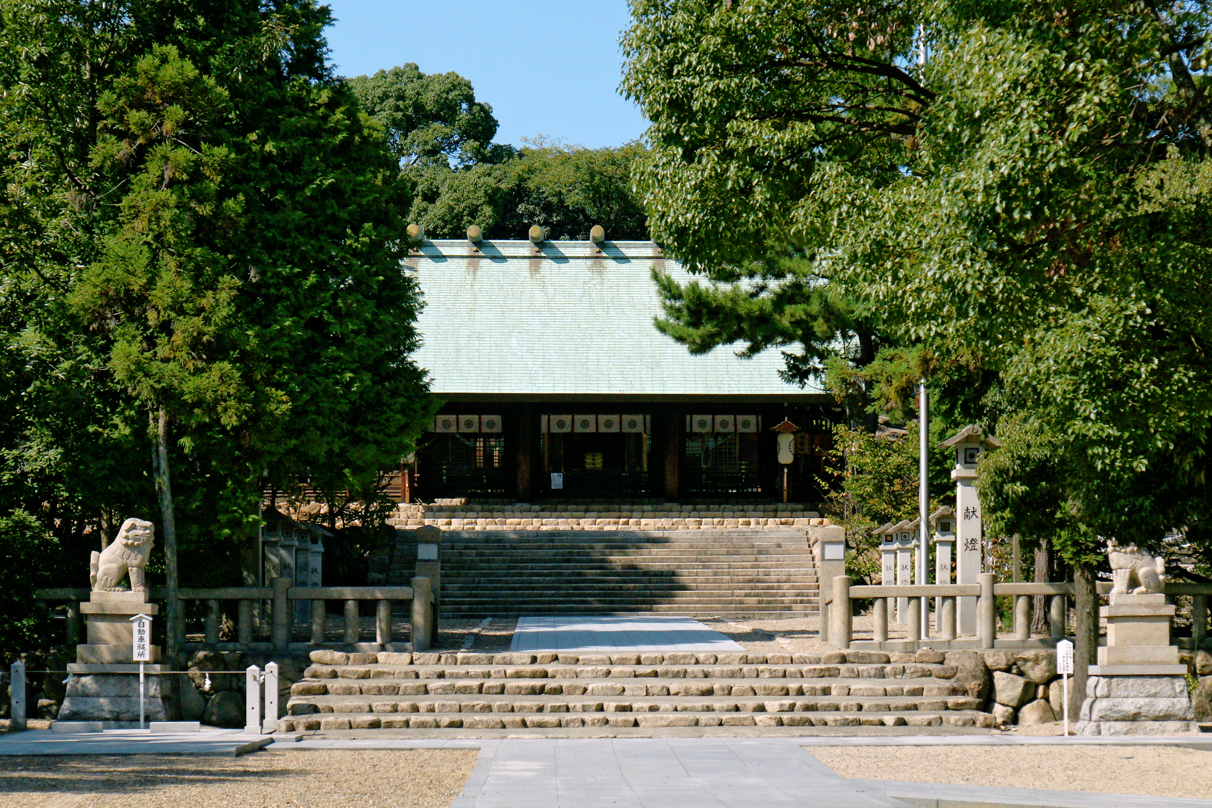 Hirota Shrine (Hirota-jinja) in Nishinomiya, Hyogo prefecture, Japan